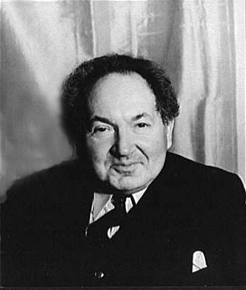 Portrait of Leopold Godowsky, a Polish pianist, composer, and teacher.,1935 May 9